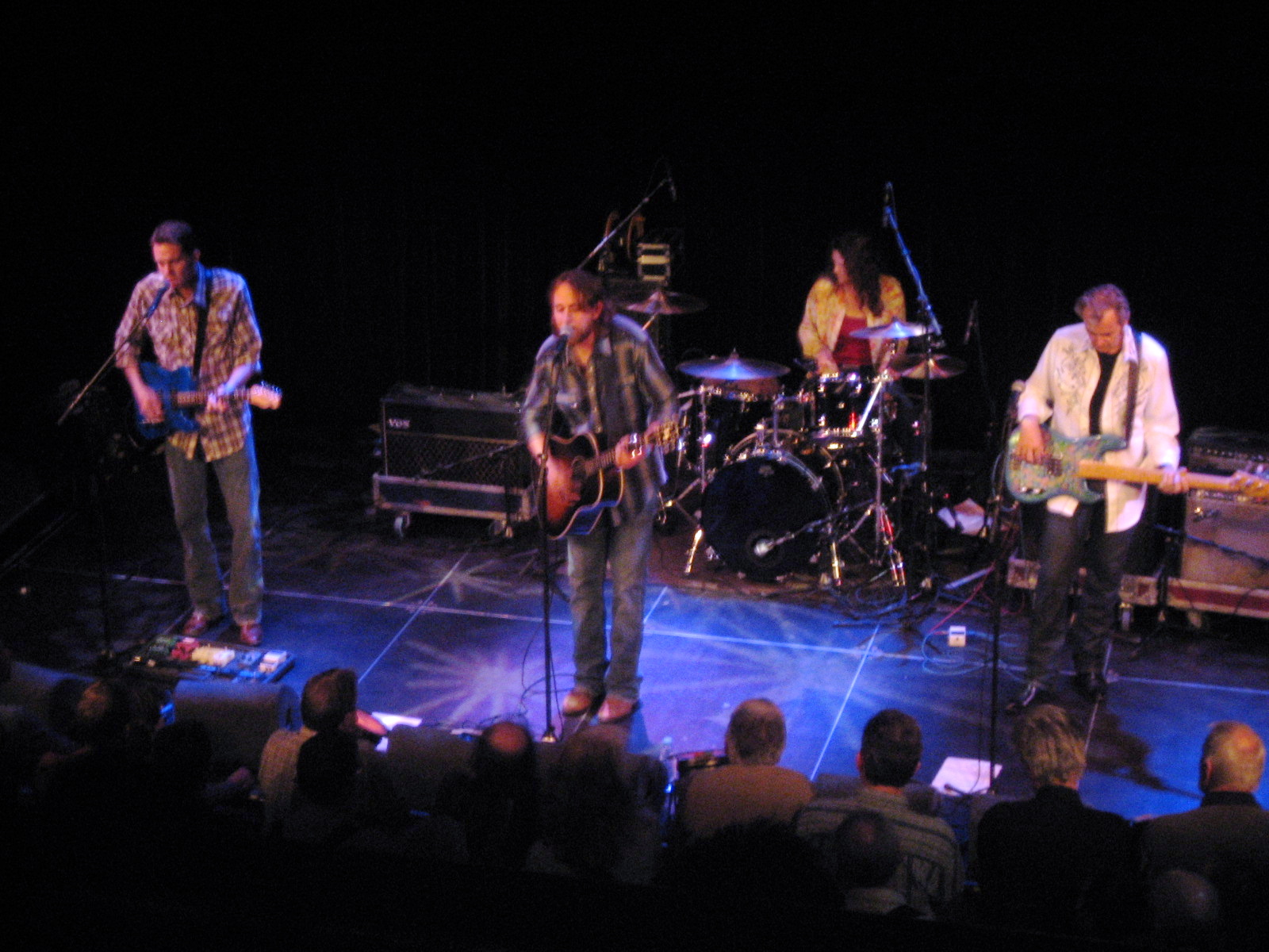 HAyes Carll @ Blue Highways 2006 #7, [Vredenburg], [Utrecht], [The Netherlands] (22 april 2006)